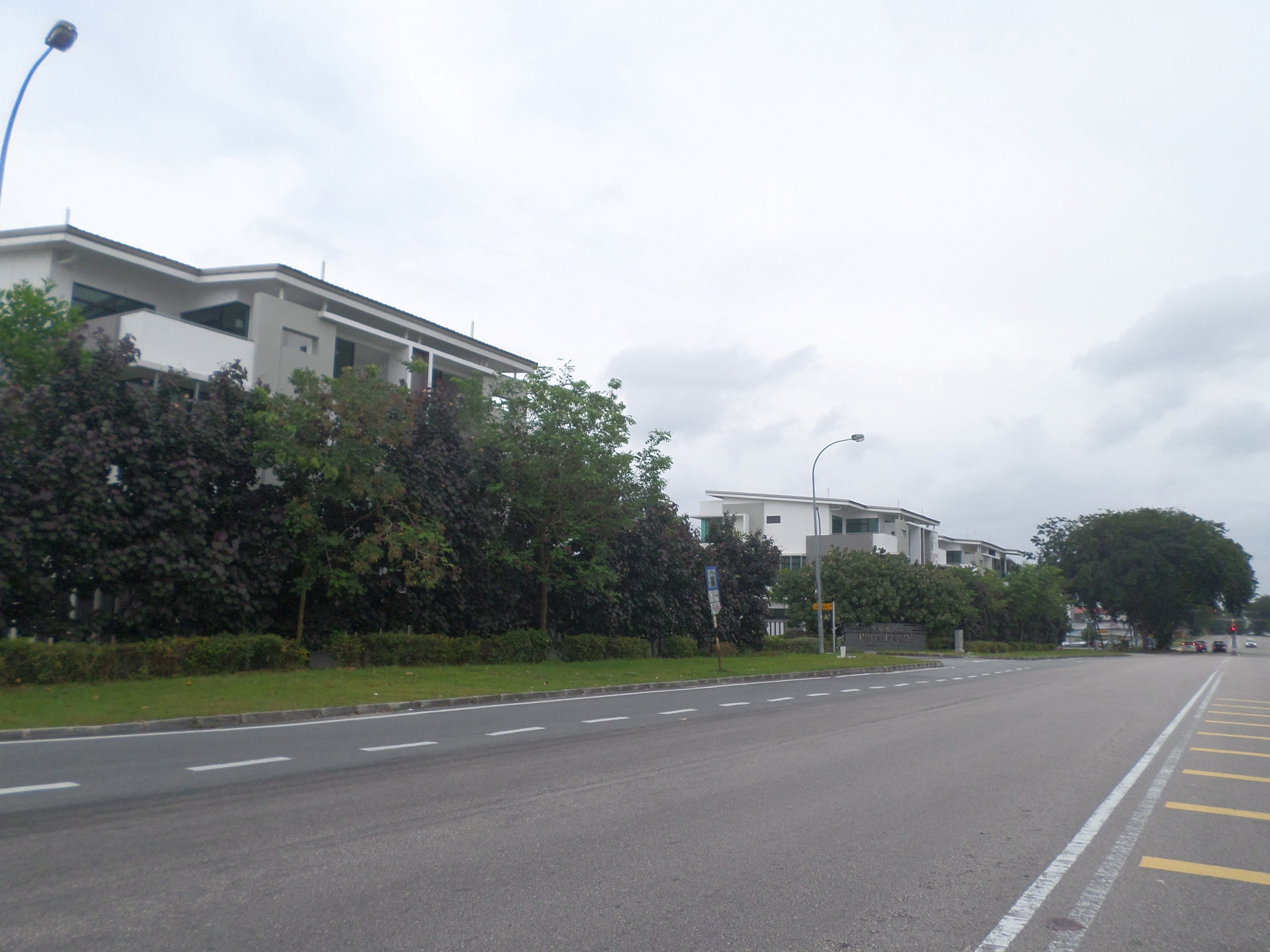 Taman Ungku Tun Aminah, Skudai, Iskandar Puteri, Johor Bahru, Johor, Malaysia